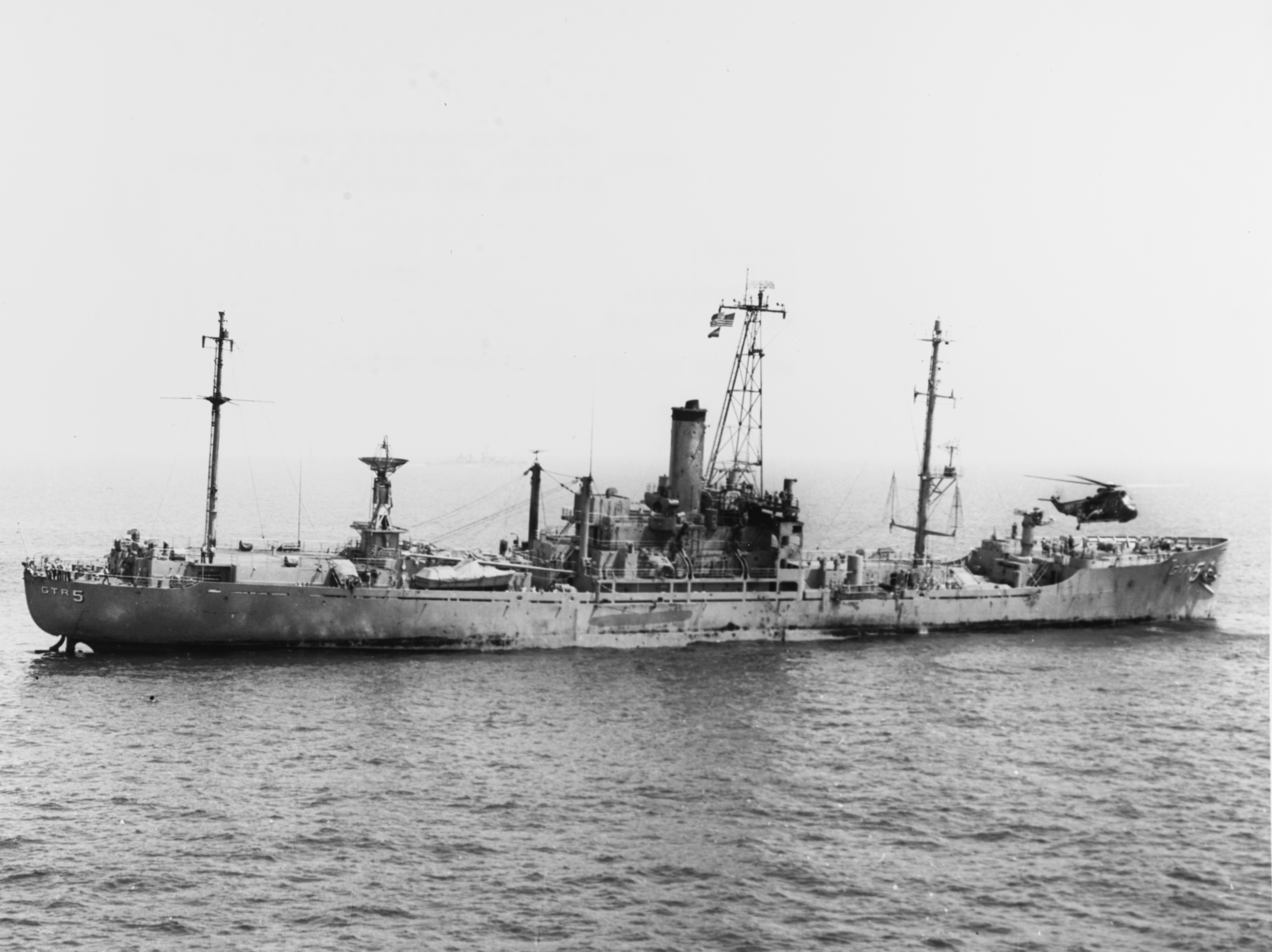 The U.S. Navy electronic reconnaissance gathering ship USS Liberty (AGTR-5) receives assistance from units of the U.S. Sixth Fleet, after she was attacked and seriously damaged by Israeli forces off the Sinai Peninsula on 8 June 1967. A Sikorsky SH-3A Sea King of Helicopter Anti-Submarine Squadron 9 (HS-9) Det.66 "Sea Griffins" is near her bow. HS-9 Det.66 was assigned to Attack Carrier Air Wing 6 (CVW-6) aboard the aircraft carrier USS America (CVA-66) for a deployment to the Mediterranean Sea from 10 January to 20 September 1967.